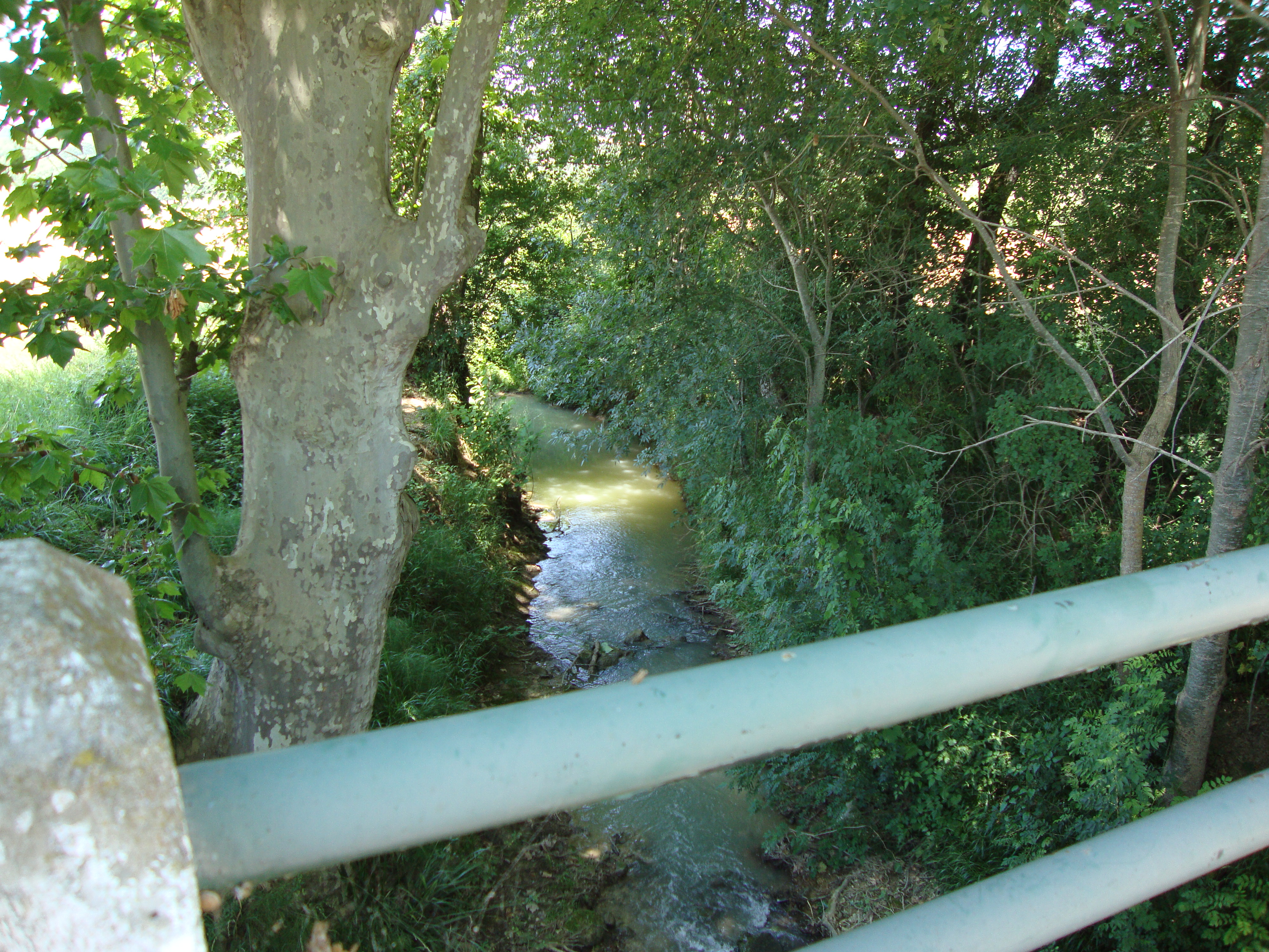 Montégut (Gers, Fr) l'Arçon